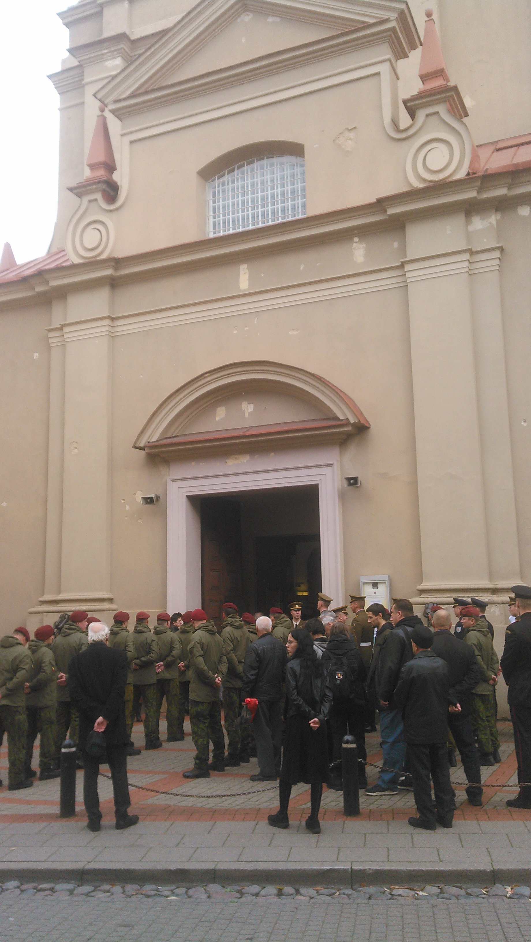 State funeral of the last Lithuanian anti-Soviet partisan A. Kraujelis-Siaubūnas, 2019.